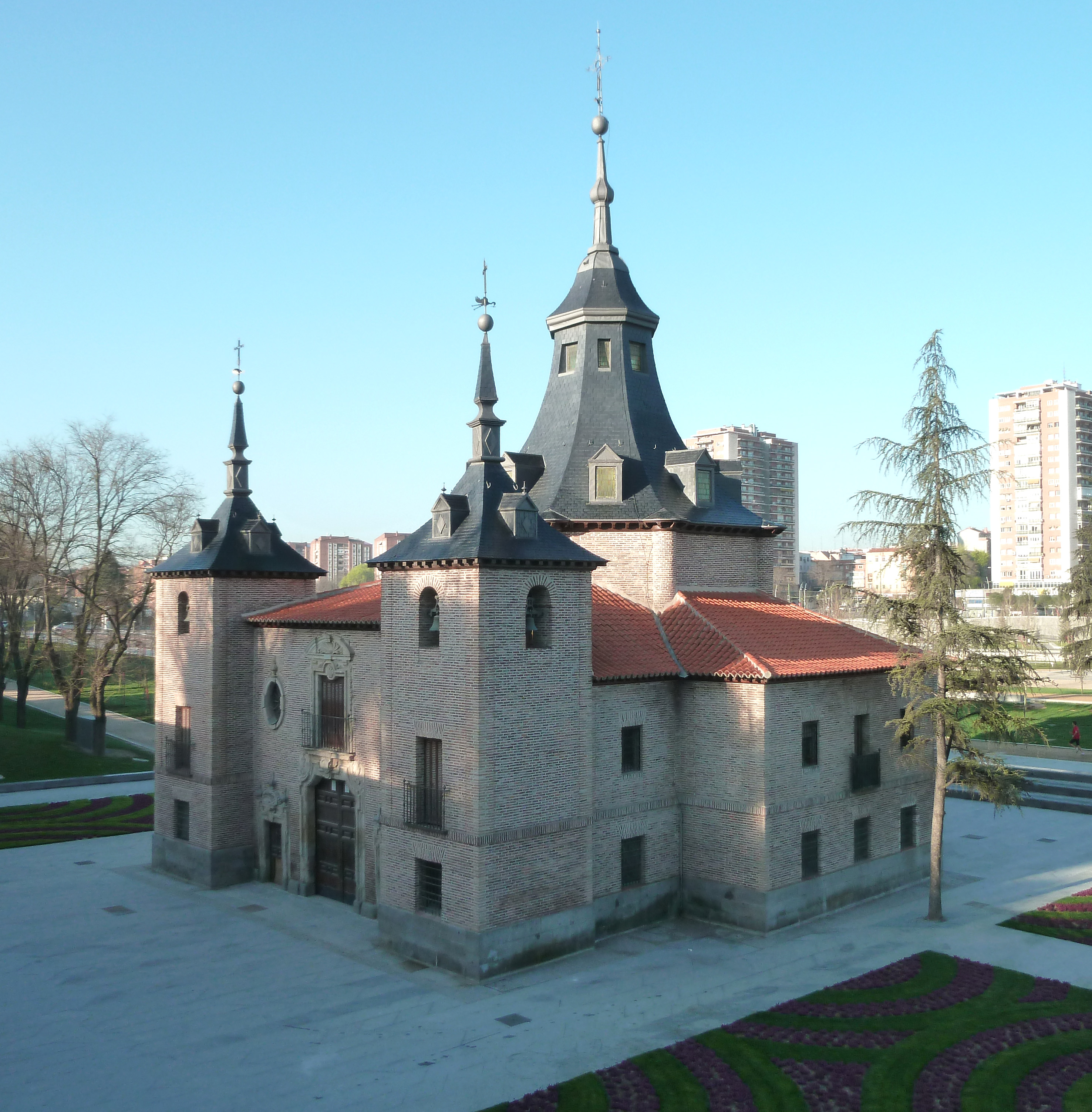 Ermita de la Virgen del Puerto (hermitage) in Madrid (Spain).